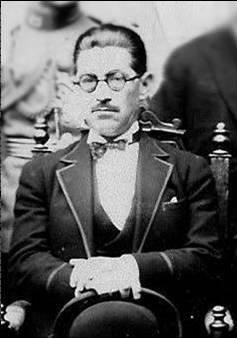 Emilio Villanueva. Picture taken by his son 1929. His son died in 2006